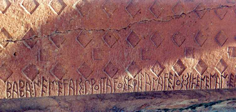 Inscription in the Phrygian alphabet. This is part of the Midas Tomb in Midas City (Midas Şehri), Turkey. (17 meter high exterior relief, 6th century BC)